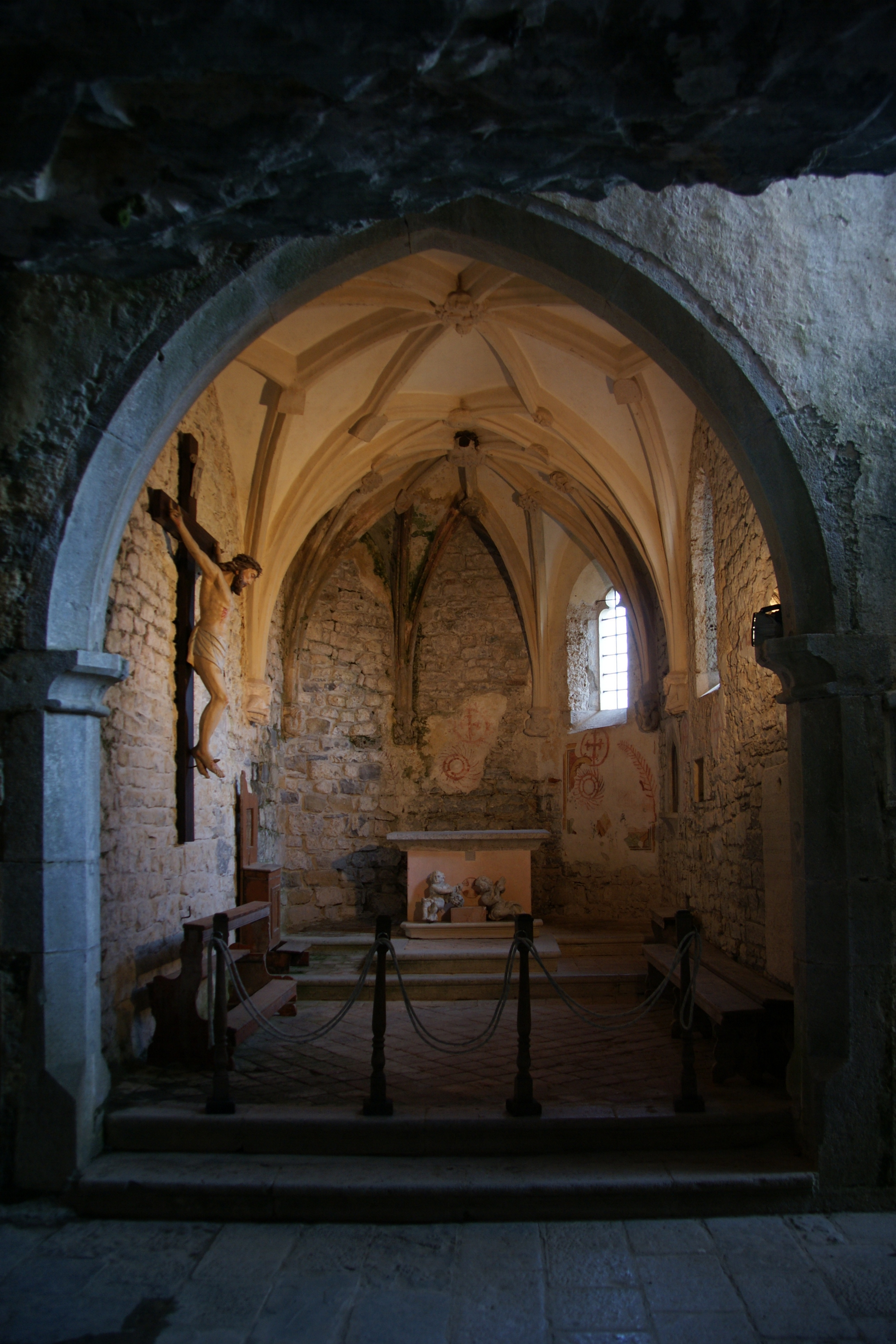 Cave San Giovanni d'Antro near Pulfero, Province of Udine